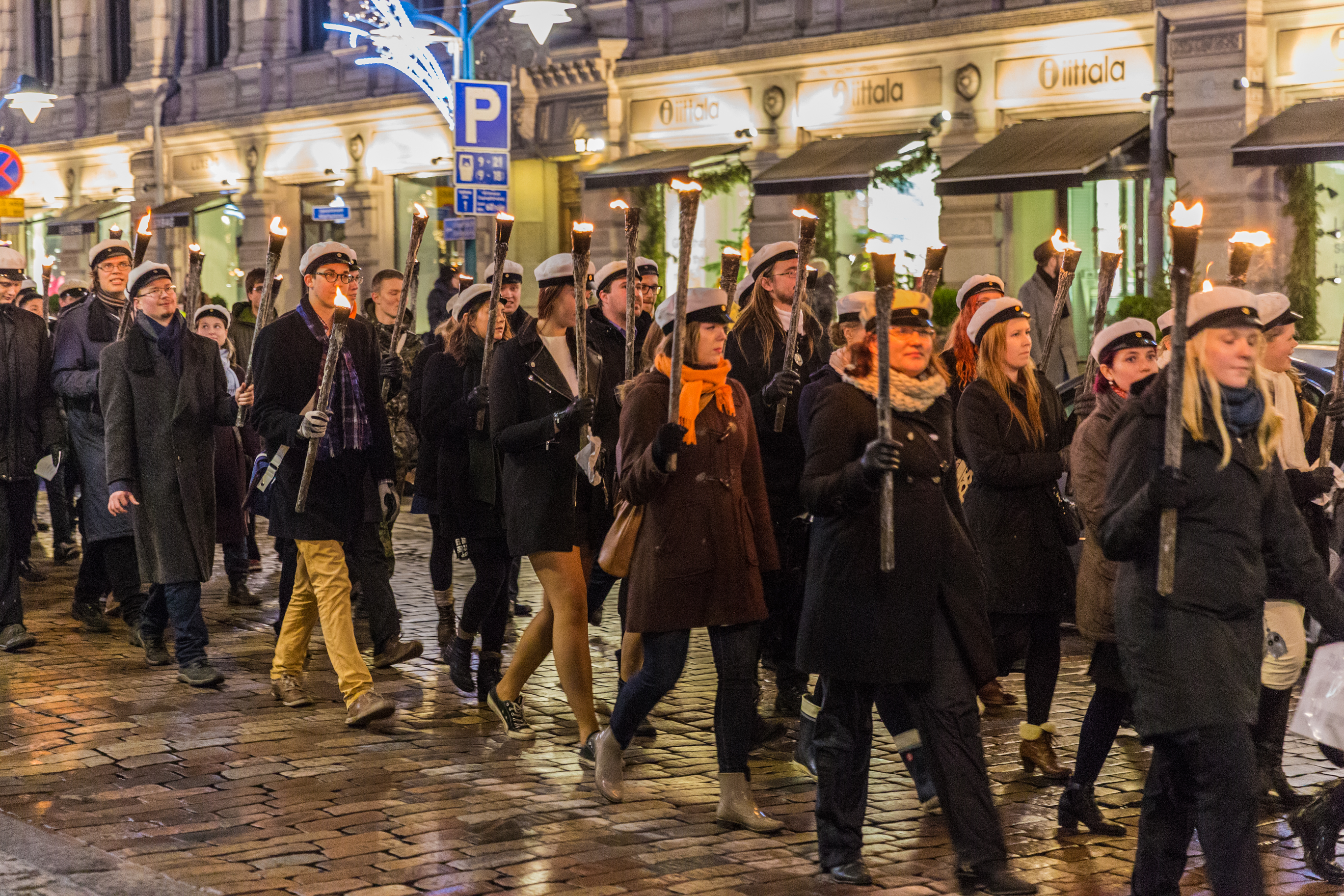 Student's torch cavalcade on Independence day